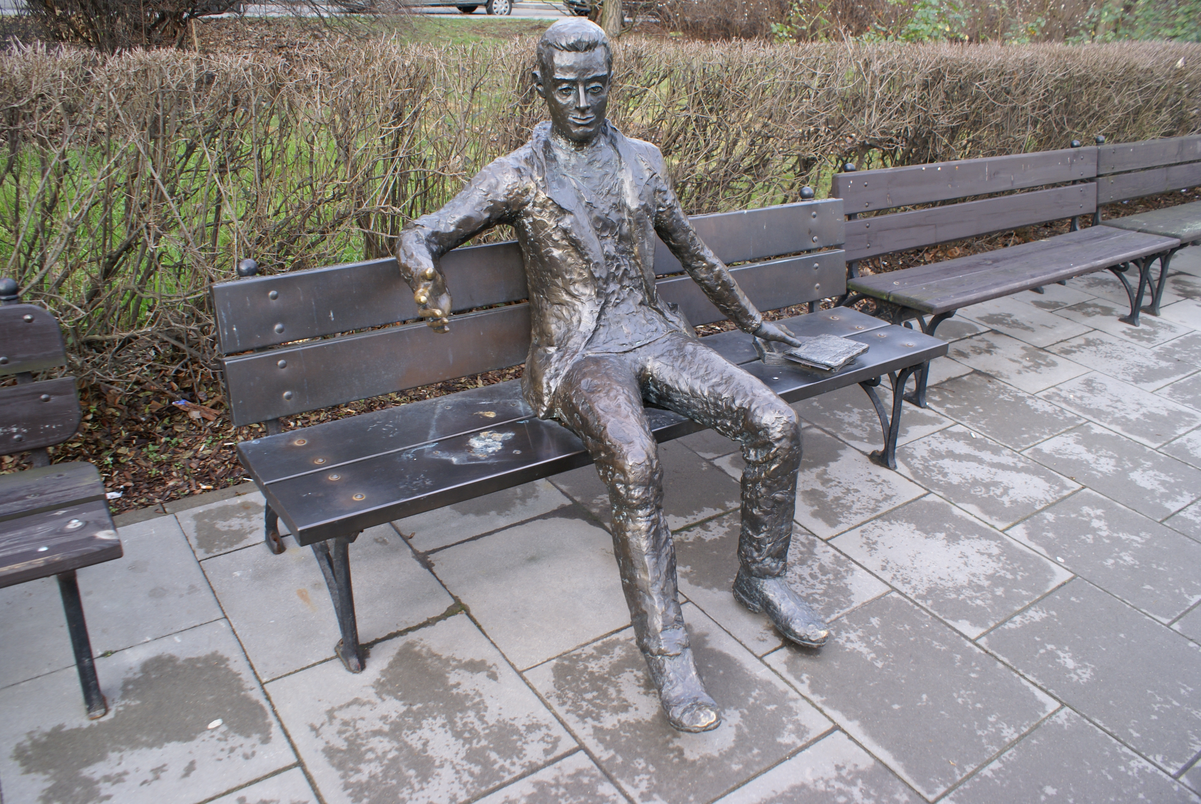 Student Monument in Warsaw University